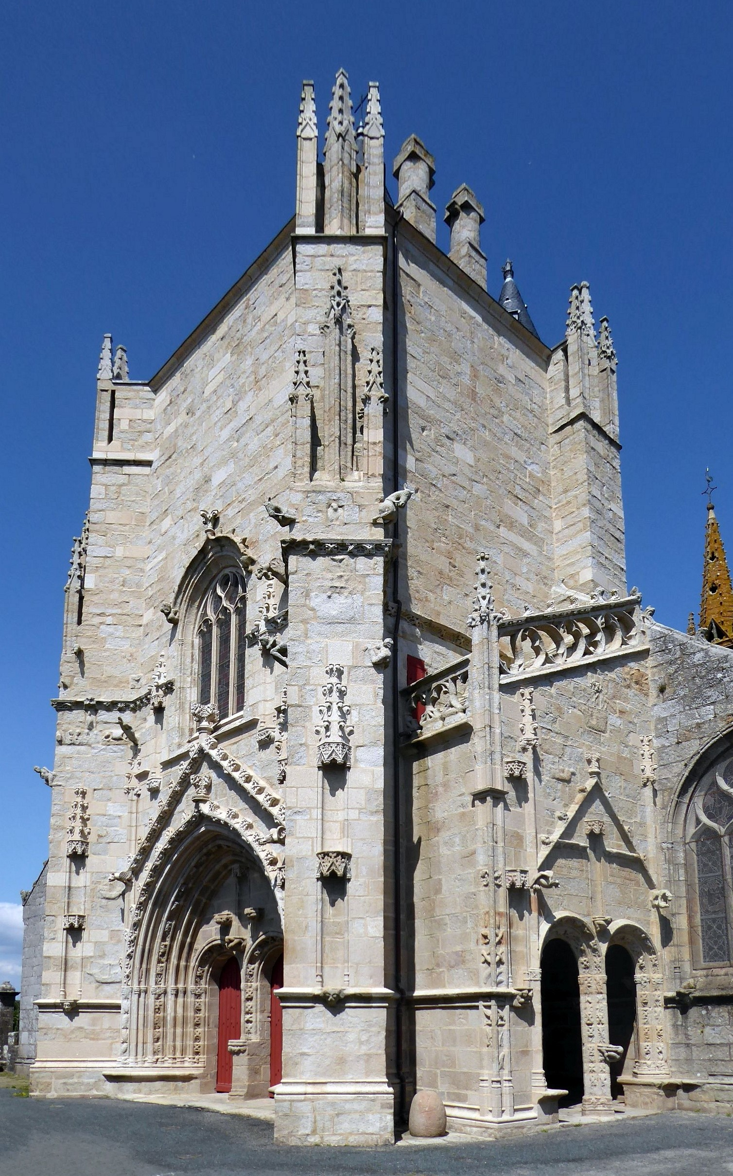 Exterior of Église Saint-Nonna de Penmarc'h